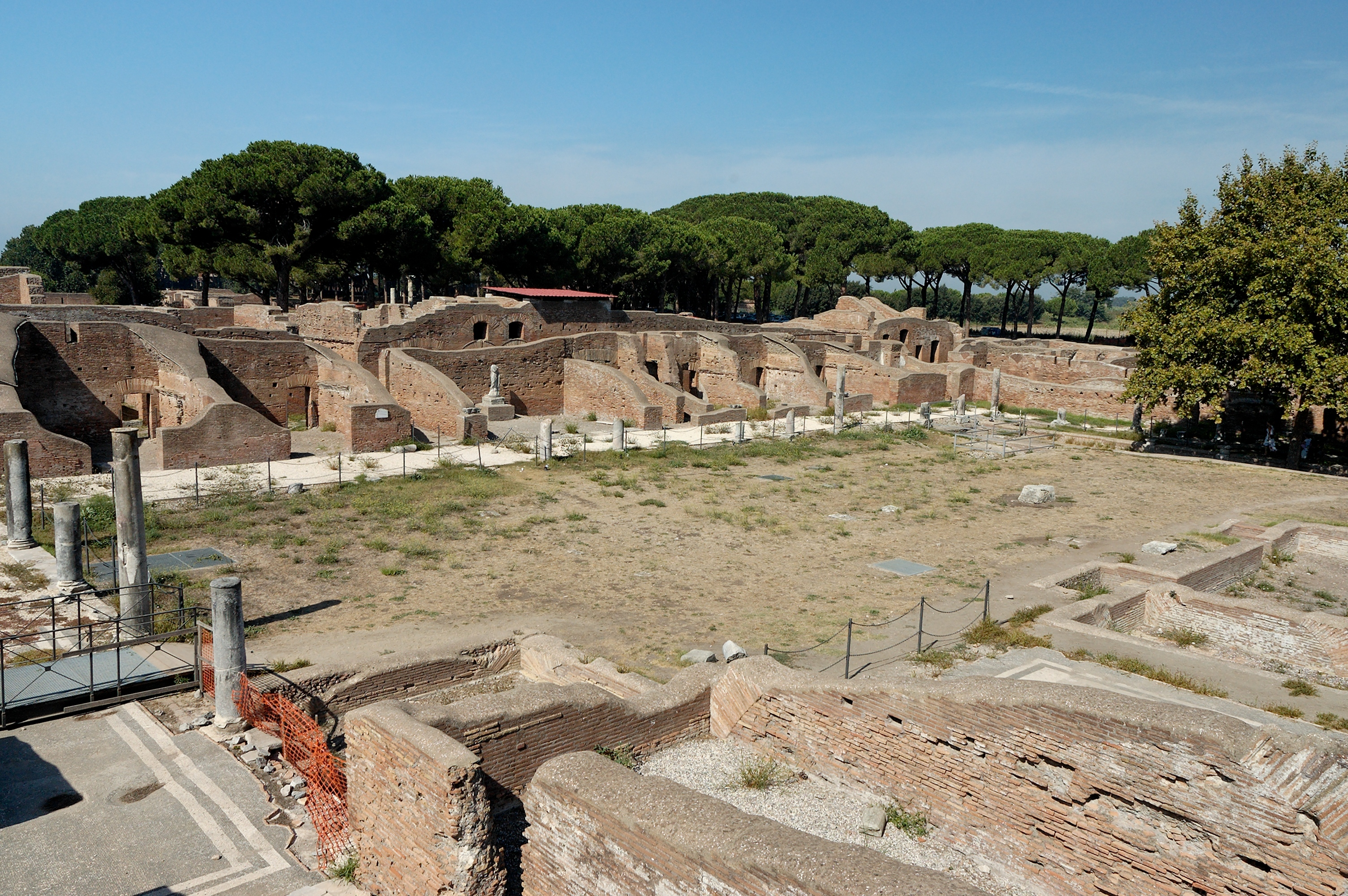 Palaestra near the Baths of Neptune, Ostia Antica, Latium, Italy.